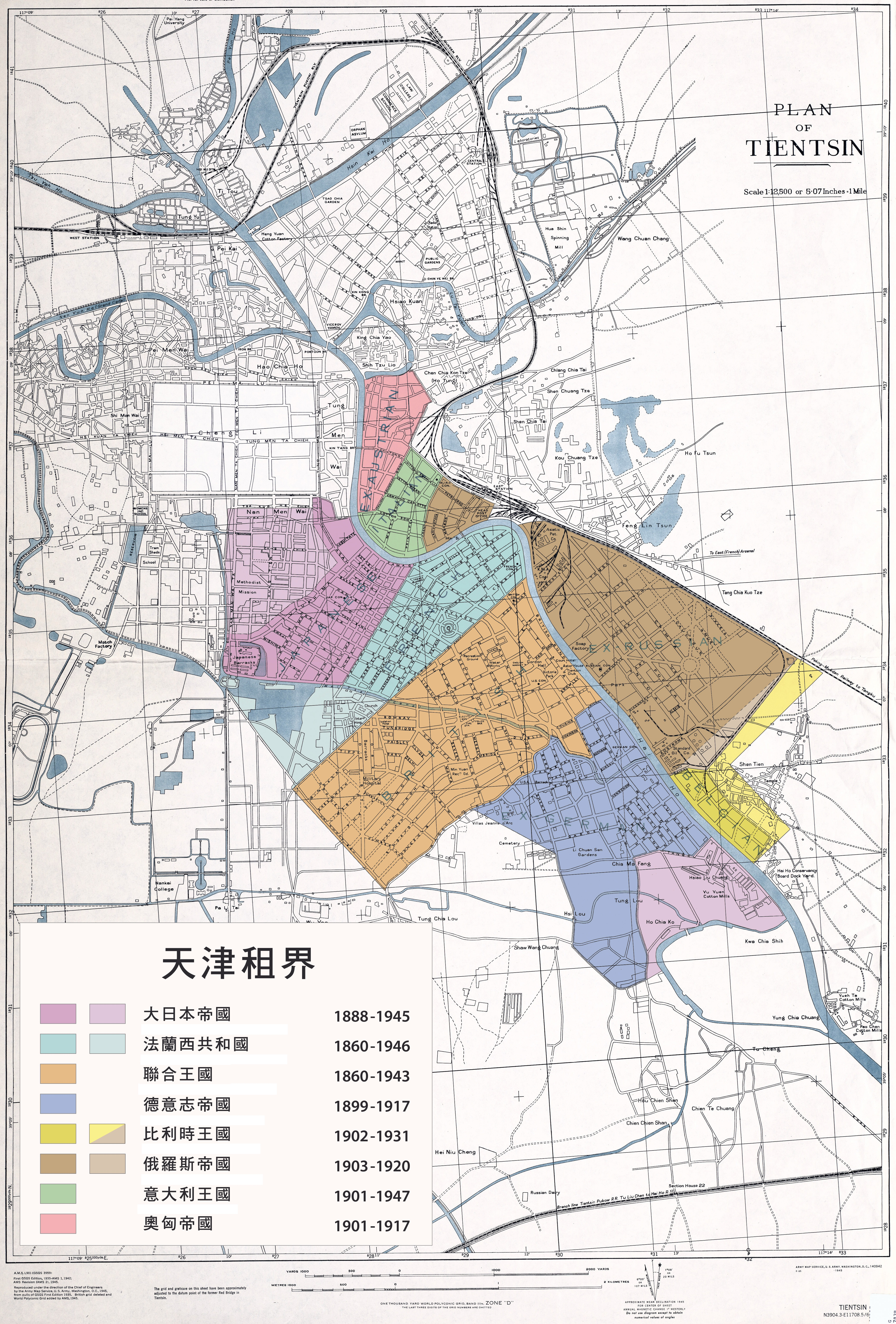 Tientsin Concession Map in Chinese